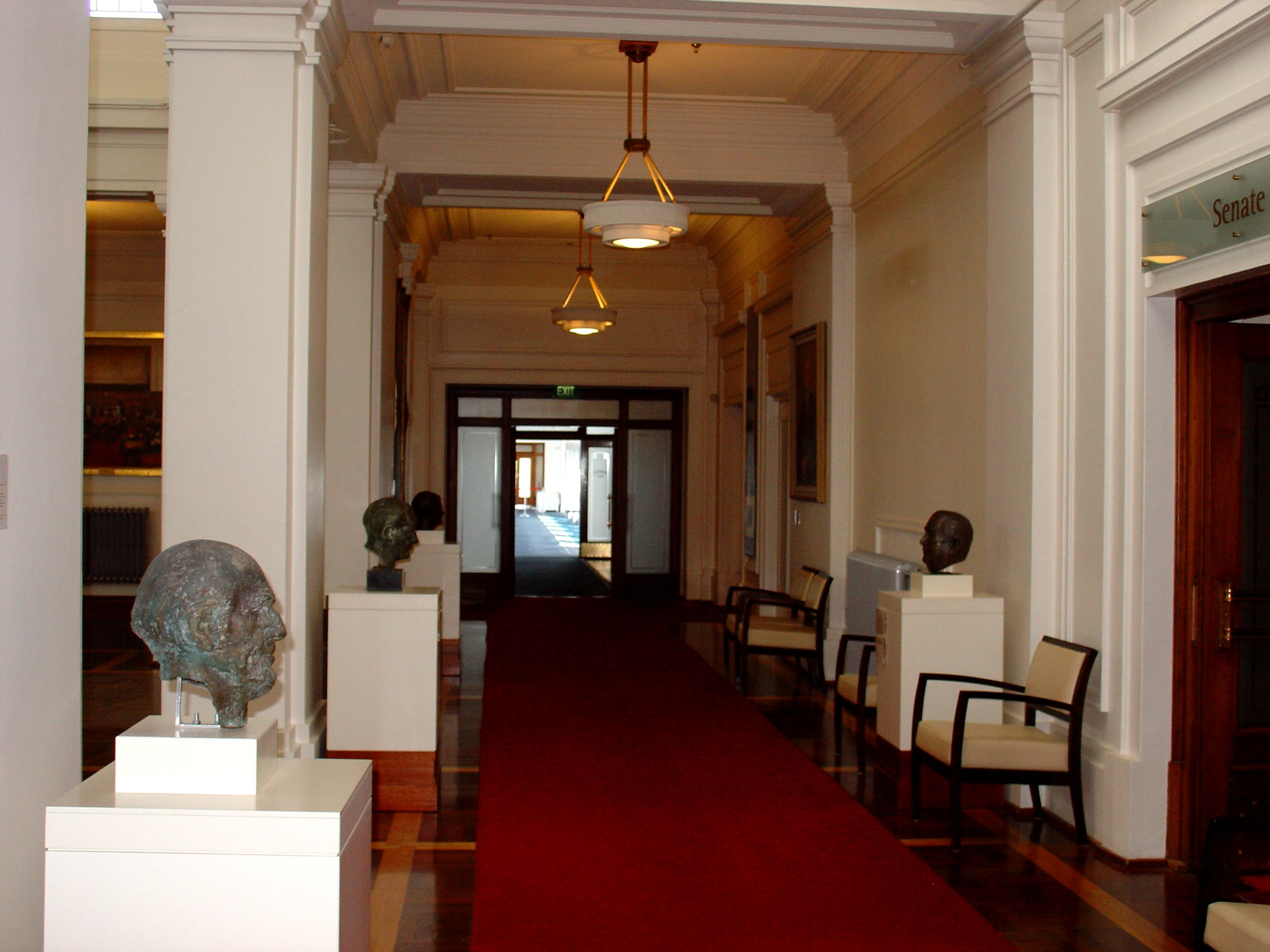 Old Parliament House, Canberra. The door at right is an entrance to the Senate chamber from a corridor to the right (west) of King's Hall. (The House of Representatives is similarly located on the eastern side of King's Hall.)